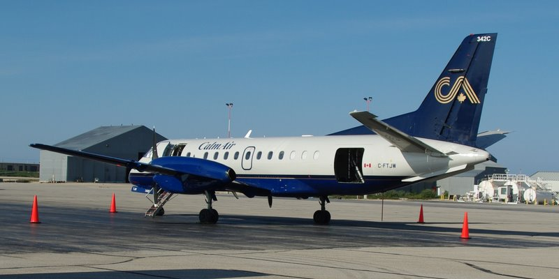 A Saab 340 B+ sits on the tarmac at the airport in Churchill, Manitob awaiting passangers for the flight north.